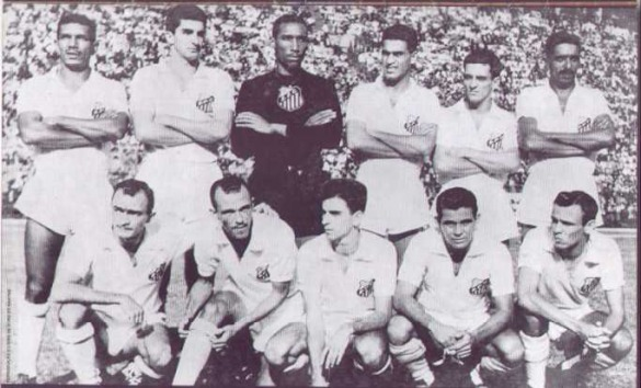 A formation of the Paulista champions of 1955. Back row, l. to r.: Ivan, Ramiro, Manga, Urubatão, Álvaro, Hélvio. Front row, l. to r.: Alfredinho, Jair Rosa Pinto, Pagão, Vasconcelos, Pepe.